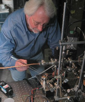 Michael McKubre working on deuterium gas-based cold fusion cell used by SRI International. Photo by Steven B. Krivit. Shot at SRI International in Menlo Park, CA on Feb. 1, 2007.